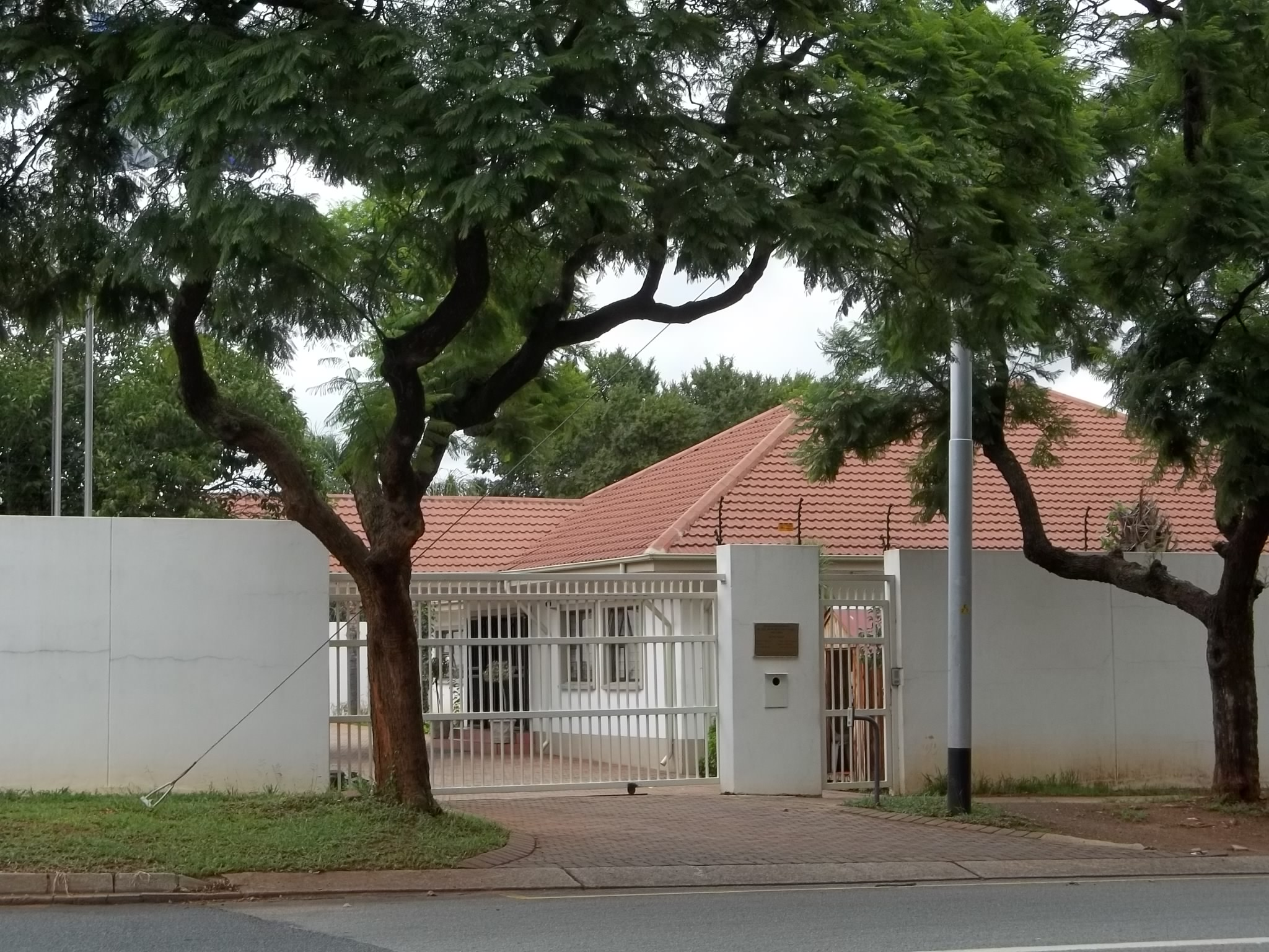 CY in ZA